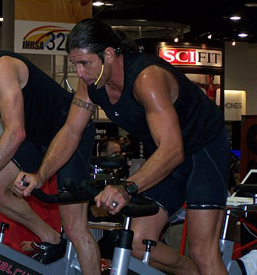 Billy Garcia Picture taken in March 2008 in San Diego by Billy Garcia.